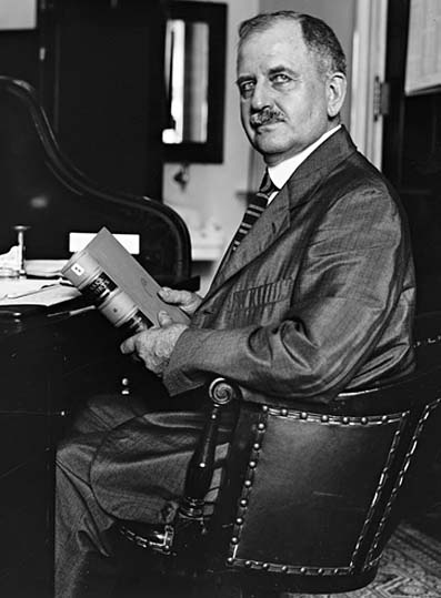 George Barnes Grigsby, congressional delegate from Alaska Territory